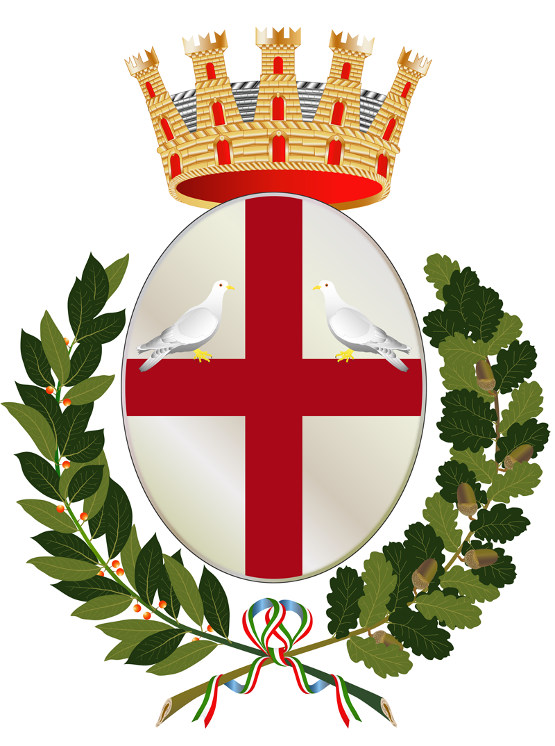 Coat of arms of Bobbio (Piacenza), Italy